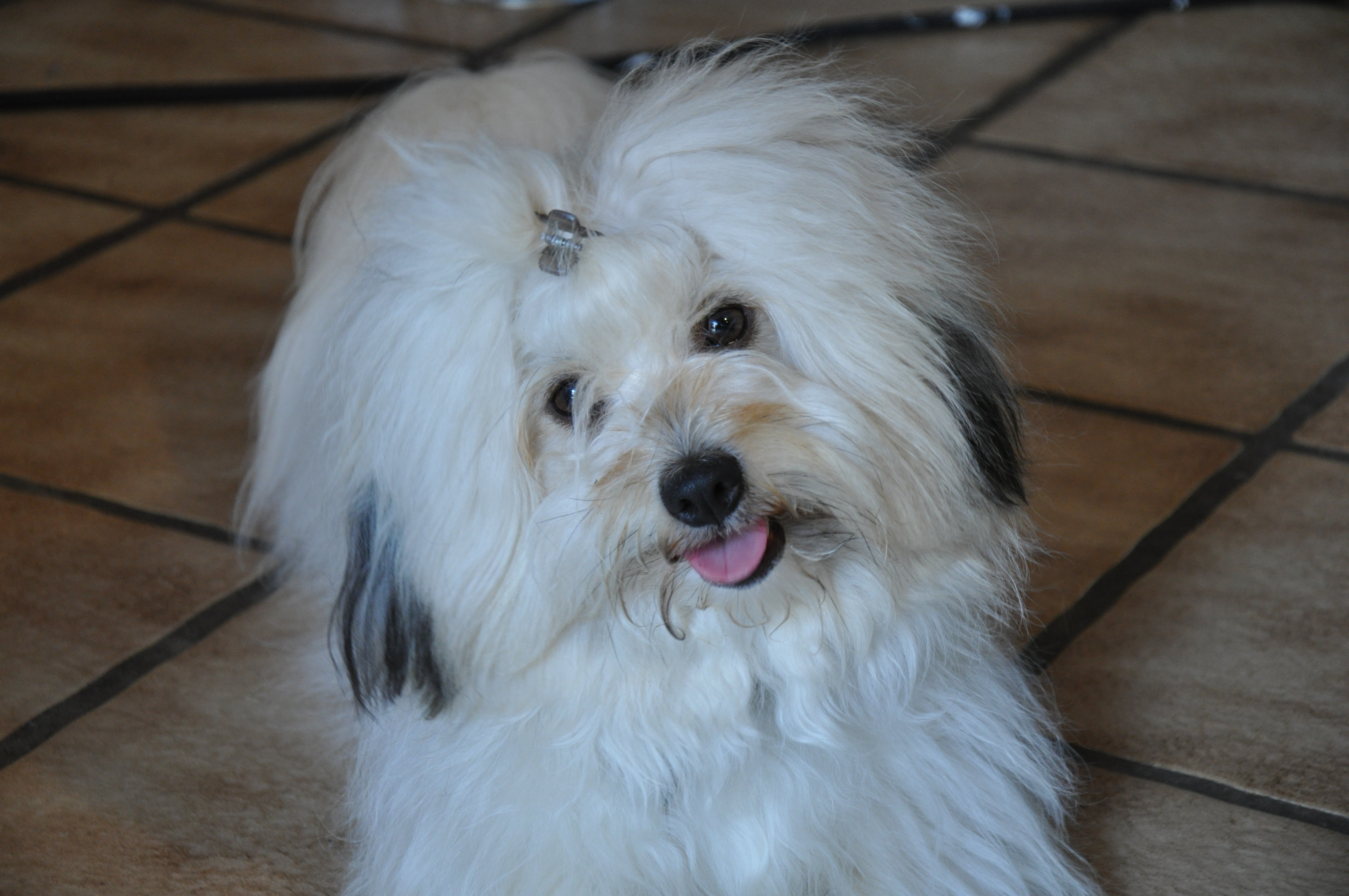 Emilio, a male Coton de Tuléar